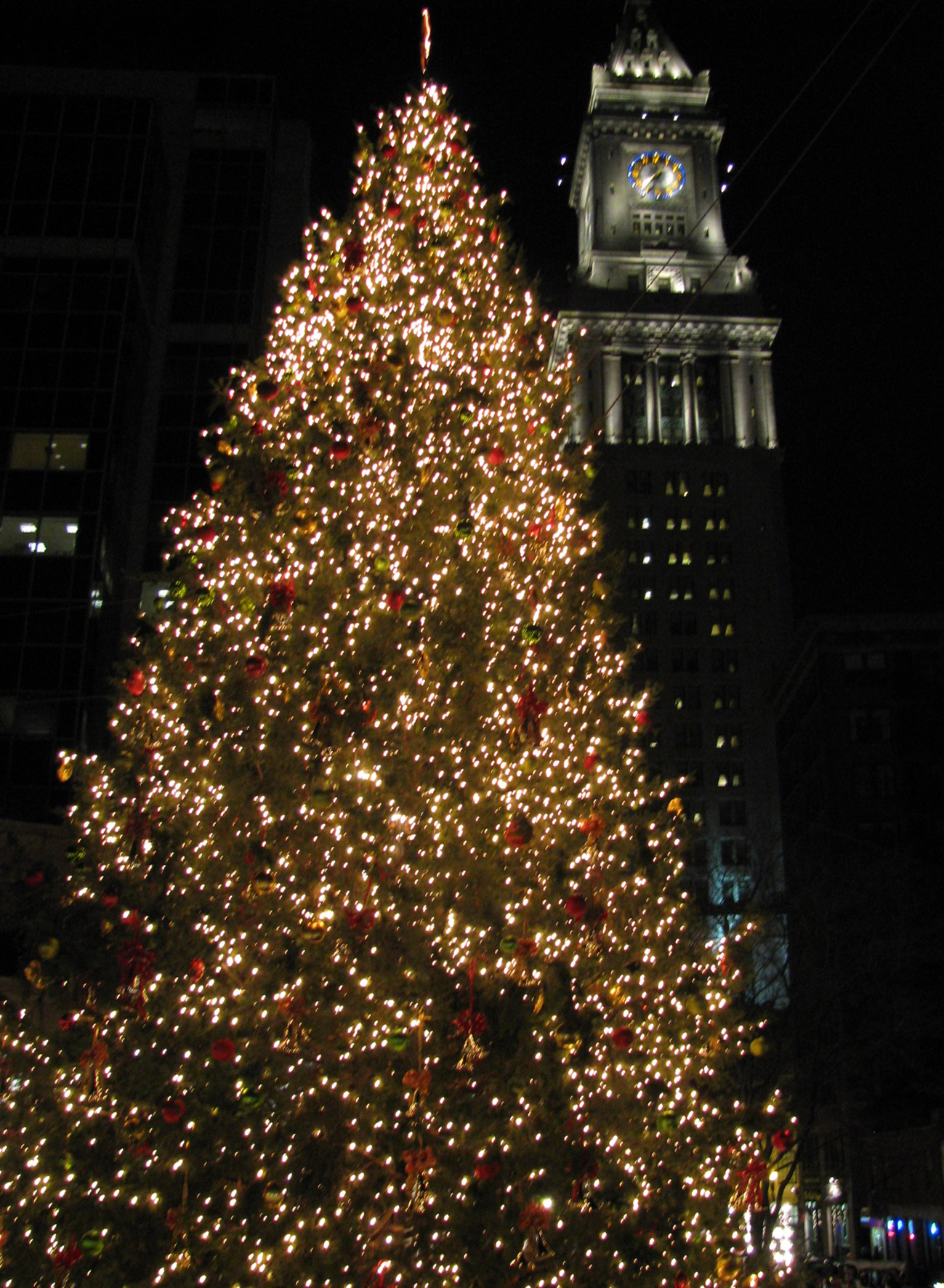 Boston, Massachusetts: Christmas tree near the Quincy Market and the Custom House